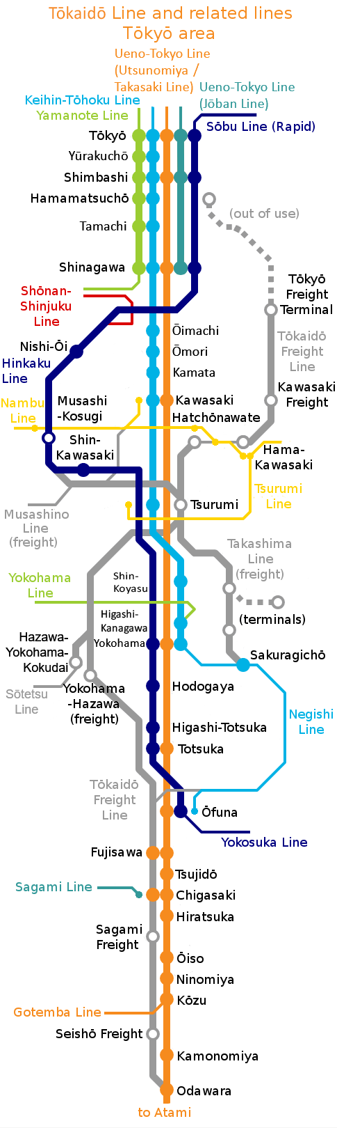 Tokaido Main Line and related lines in Tokyo area English version of original work by Wikimedia Commons user Rail Rider, translated by user Nankai, updated by user Nonamedman